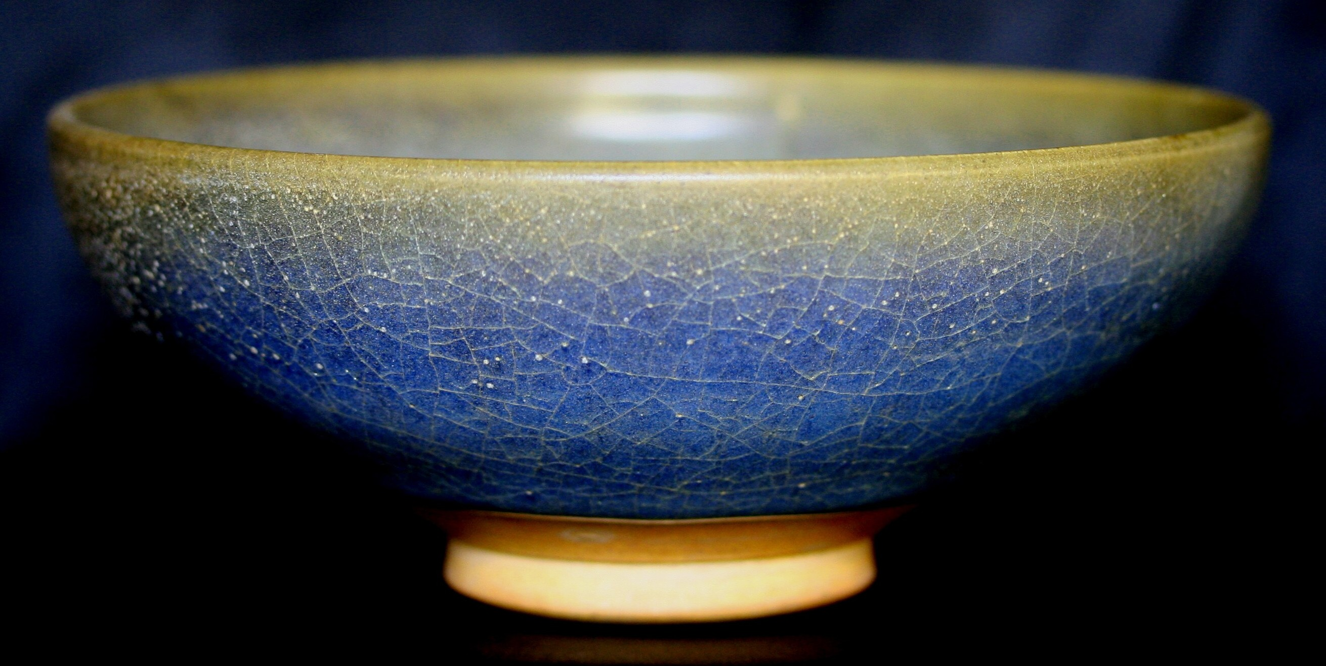 Yuan period Jun bowl